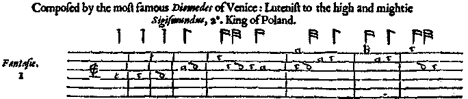 "Fantasia for Lute. Composed by the most famous Diomedes of Venice: Lutenist to the high and mightie Sigismundus, A(ugustus). King of Poland.